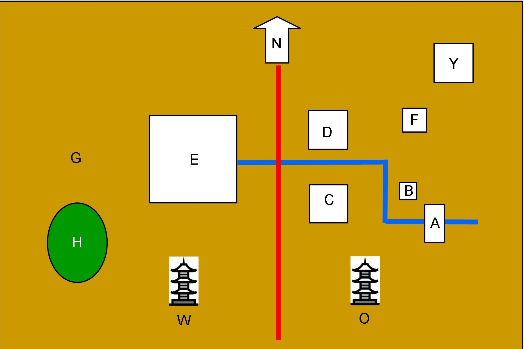 Sketch of layout Taimadera